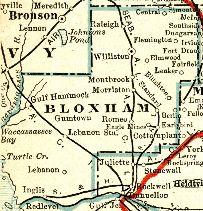 The proposed boundary for Bloxham County, Florida.